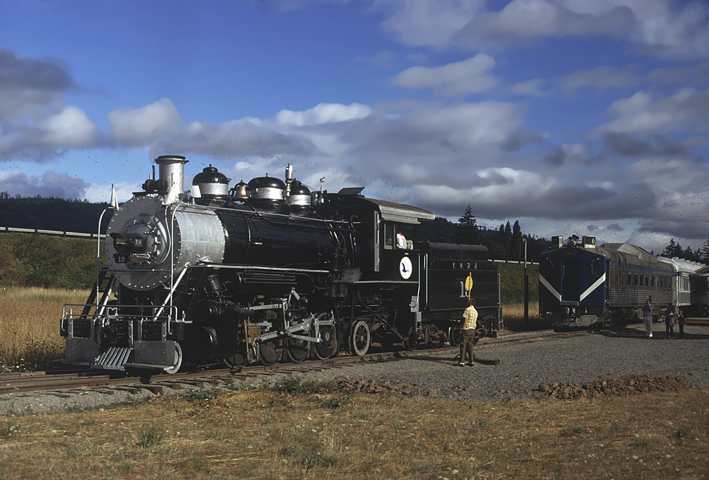 Yreka Western #19 on lease to the Oregon Pacific and Eastern in Cottage Grove, OR Is switching cars to get ready for its trip up the Rowe River Valley. It is mid-August, 1971